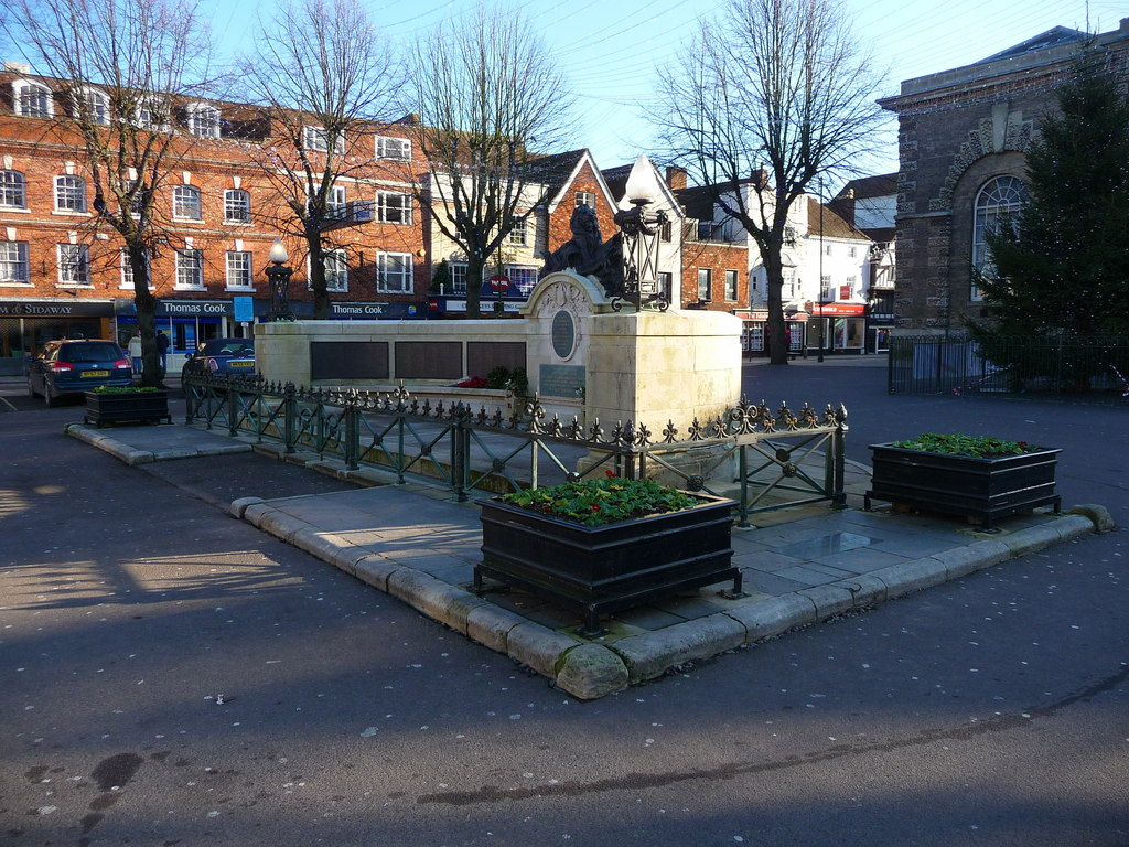 Salisbury - War Memorial Salisbury's memorial to the fallen of two world wars.